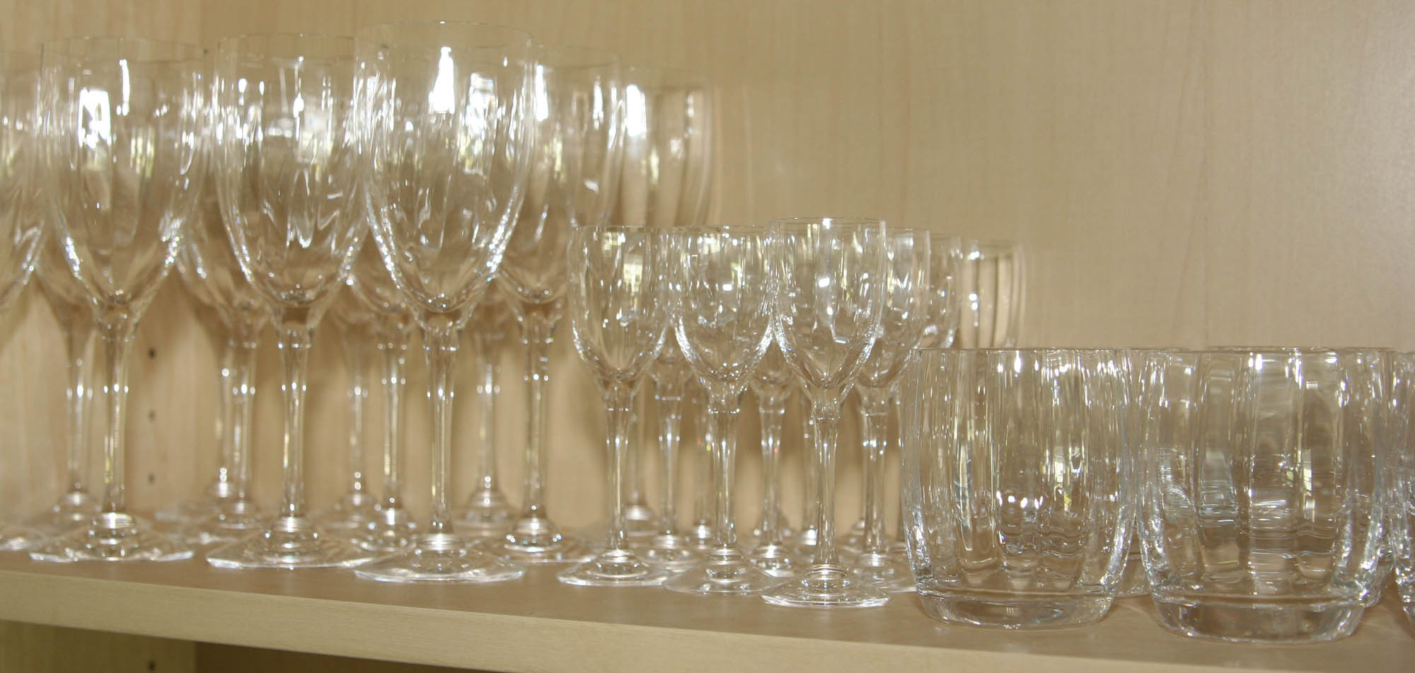 Dinnerglasses. "Optica" from Orrefors, design Gunnar Cyrén